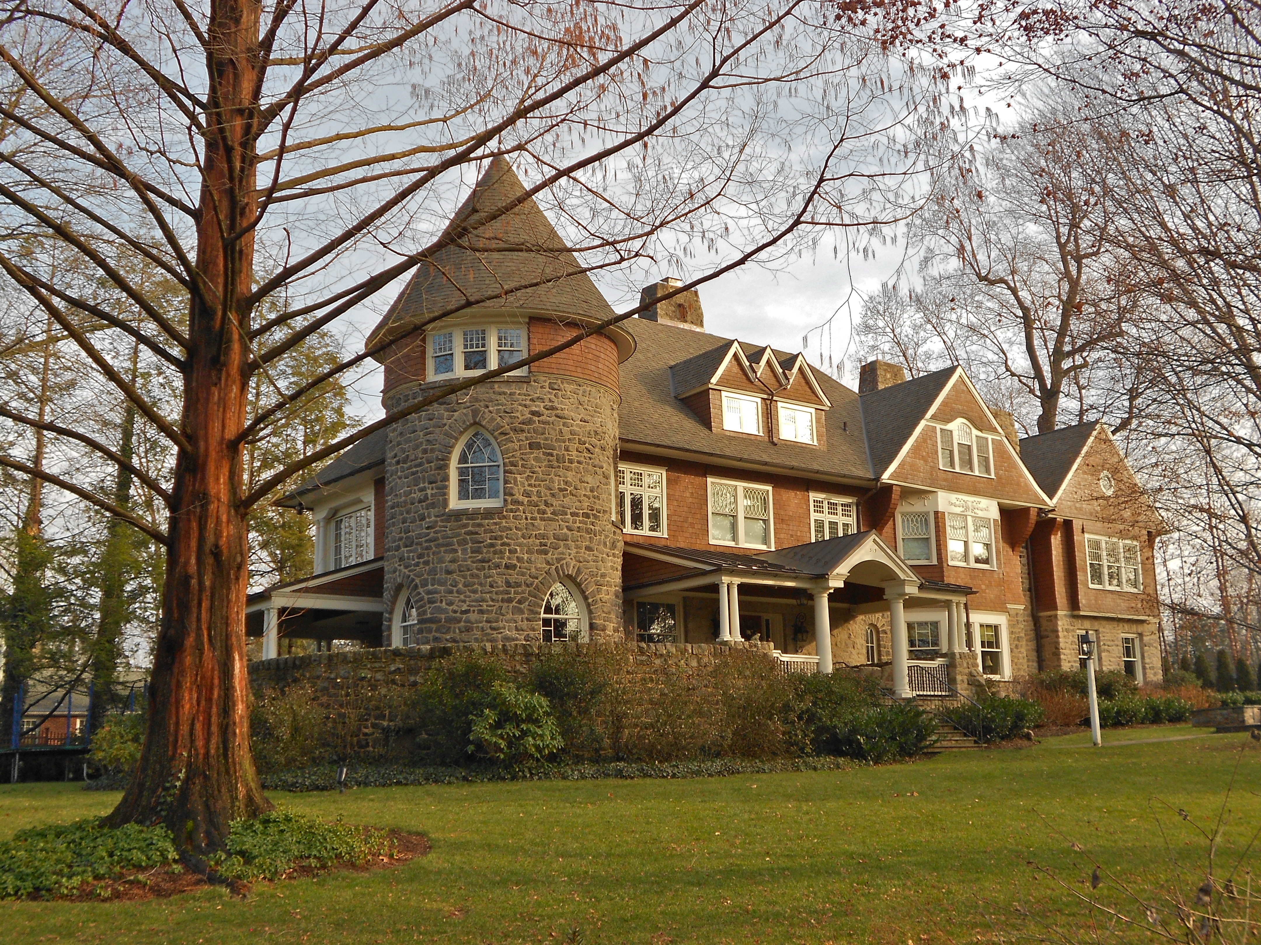 House at 319 Louella Street, Wayne, Pennsylvania in the South Wayne Historic District. Designed by Horace Trumbauer according to the NRHP nomination. There are 10-12 houses on Louella that make it the most impressive street in a very impressive historic district. At least 4 of these houses designed by Trumbauer.